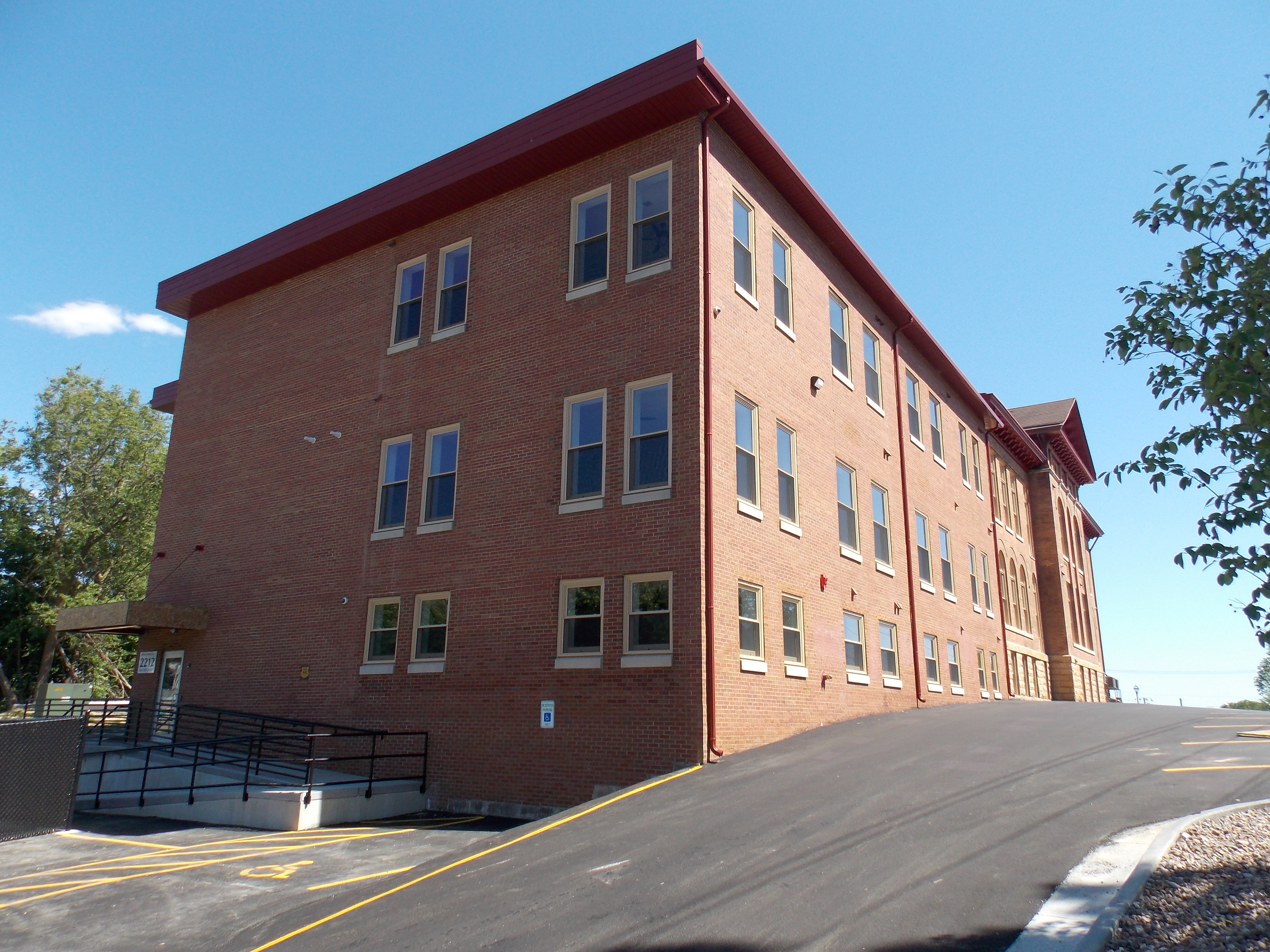 The rear view of Pierce School Lofts is an apartment building in Davenport, Iowa that is listed on the National Register of Historic Places as Pierce School No. 13.